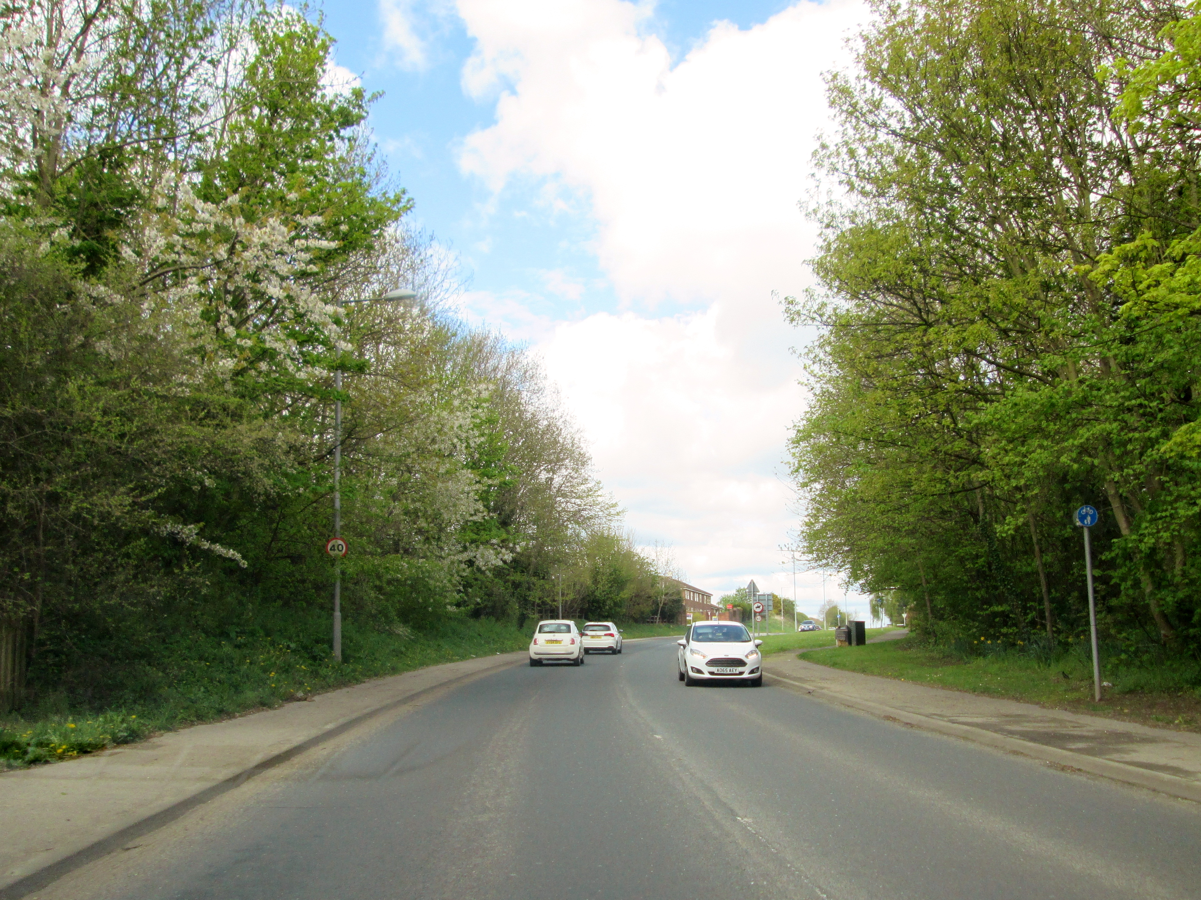 Beverley Road Willerby toward the A164, Willerby, East Riding of Yorkshire, England.This section of road to the next roundabout has housing on both sides. Now the last fields are being built on at this time.